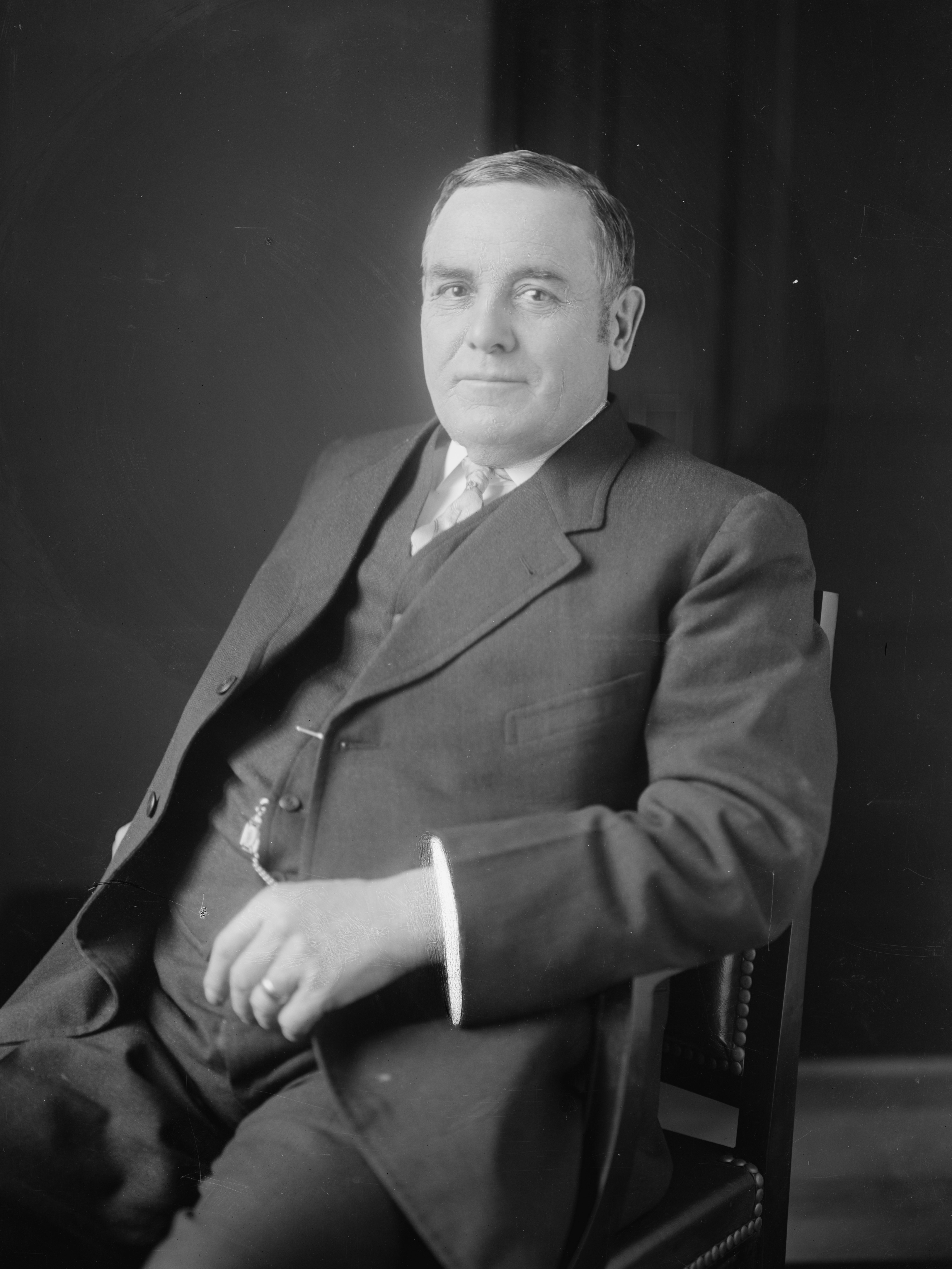 Title: GARDNER, OBEDIAH. SENATOR Abstract/medium: 1 negative : glass ; 8 x 10 in. or smaller